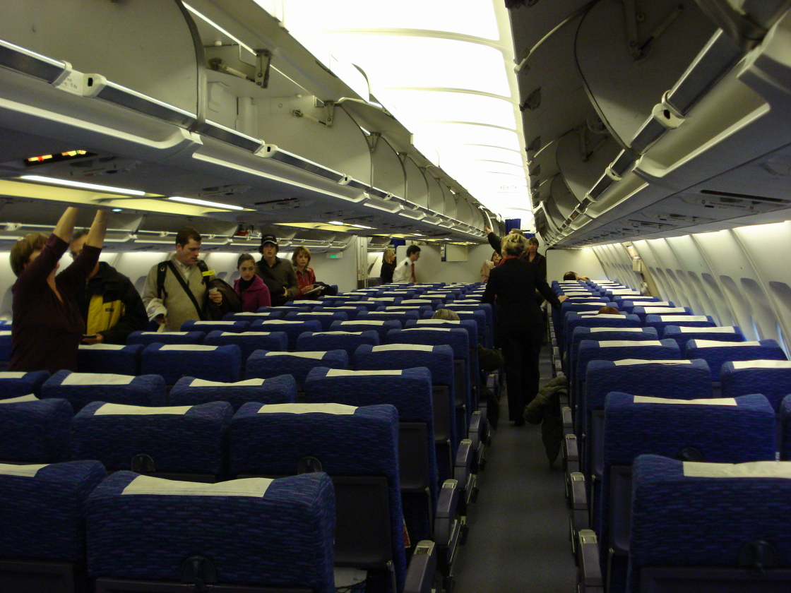 Cabin of Czech Airlines Airbus A310-300